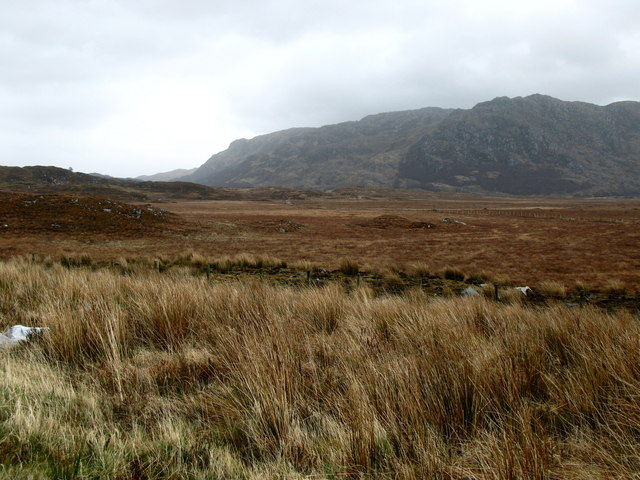 Mointeach Mhòr The new road to Mallaig runs past Mointeach Mhor, once a large, sheltered embayment. Investigations into the geology of the area show that this was an old sand dune that marked the coastline perhaps 5000 years ago. Creag Mhor towers in the background.